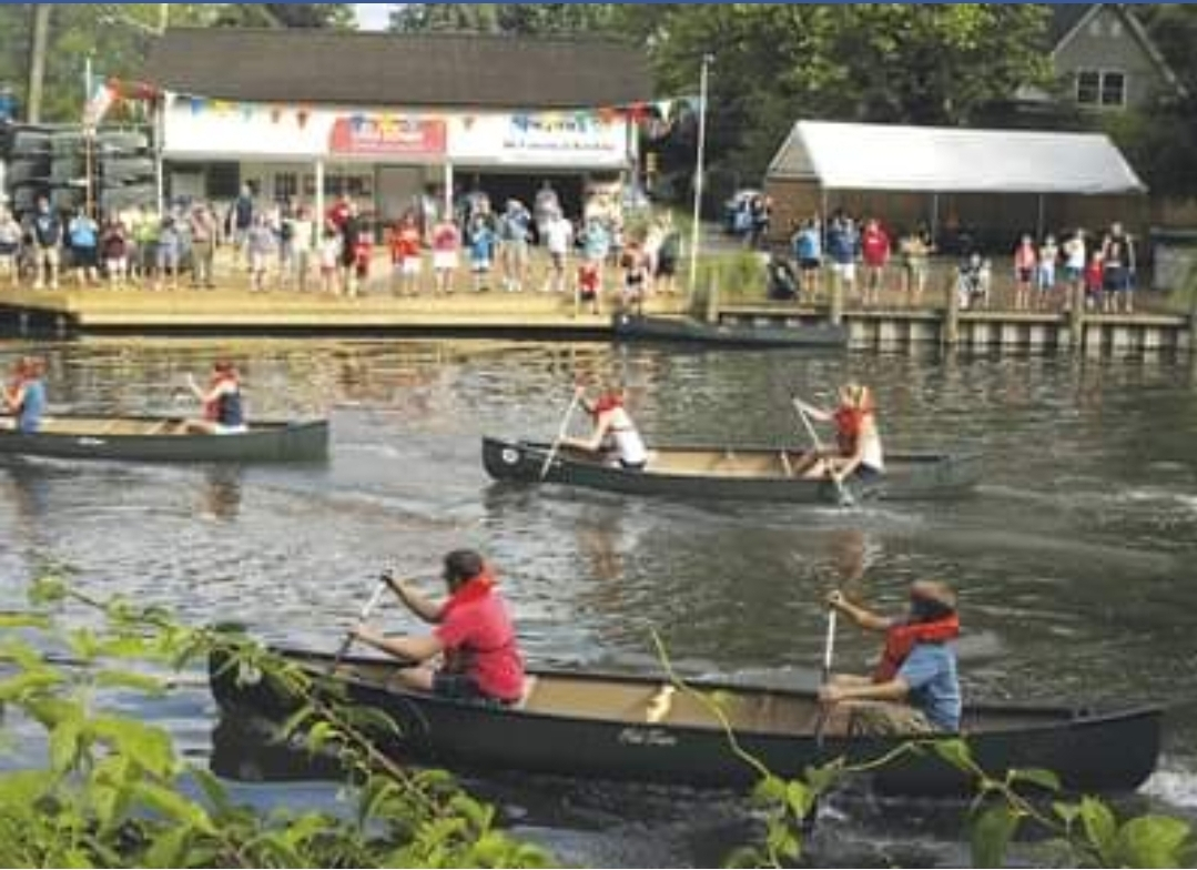 Canoe riding in new jersey